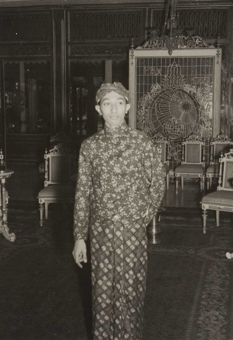 Pakoe Boewono XII, the Susuhunan of Solo, at the kraton